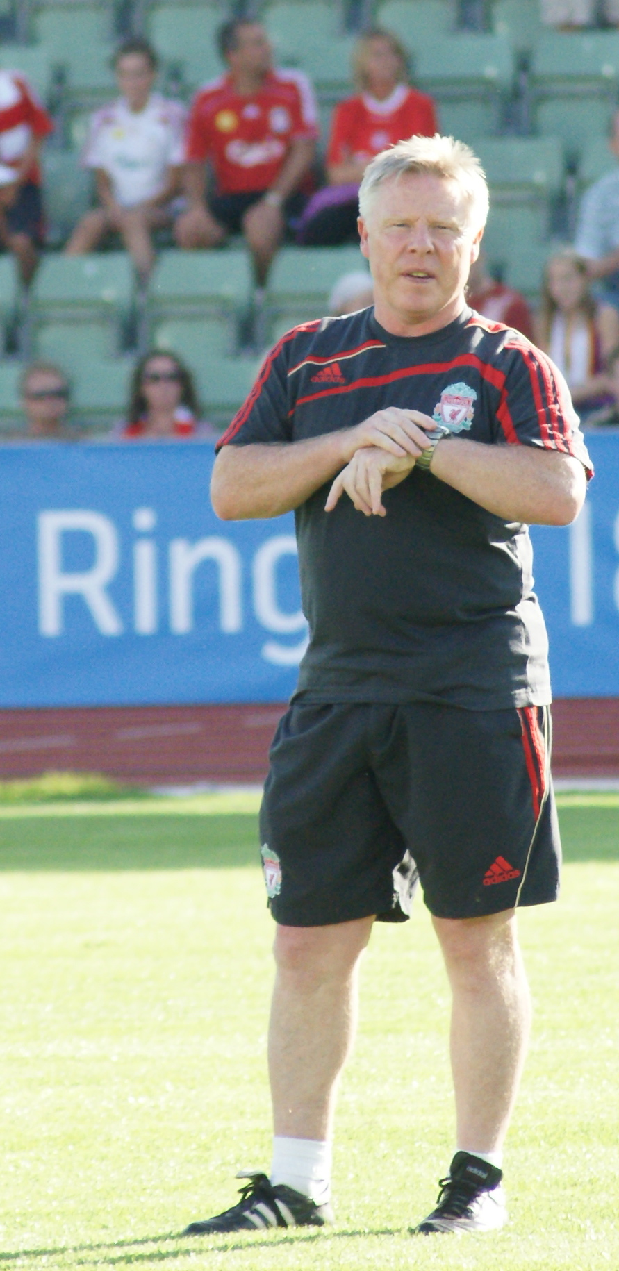 Sammy Lee at pre season match in Norway againt Lyn.